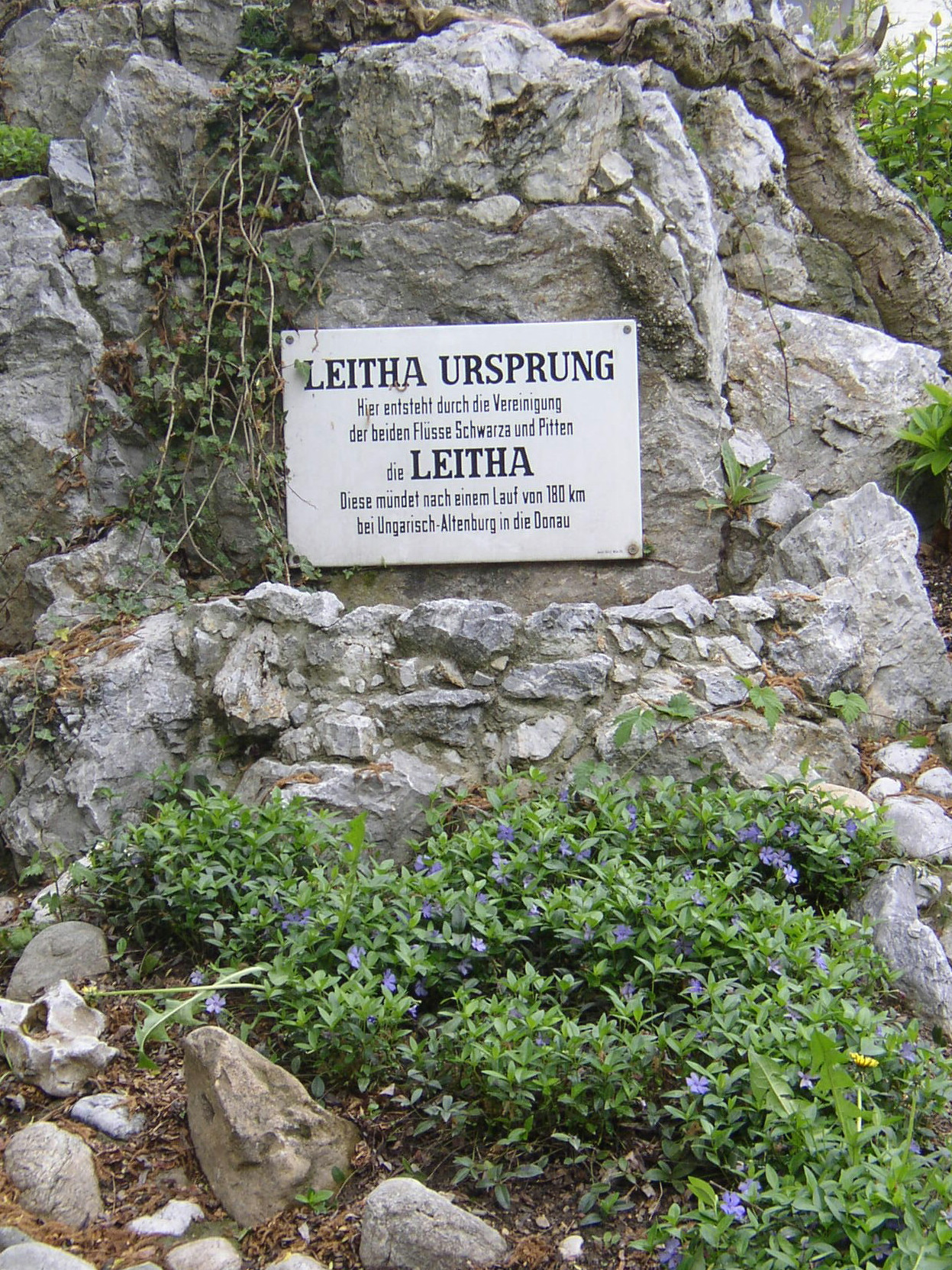 Tablet at the origin of the river Leitha at Haderswoerth, municipality Lanzenkirchen